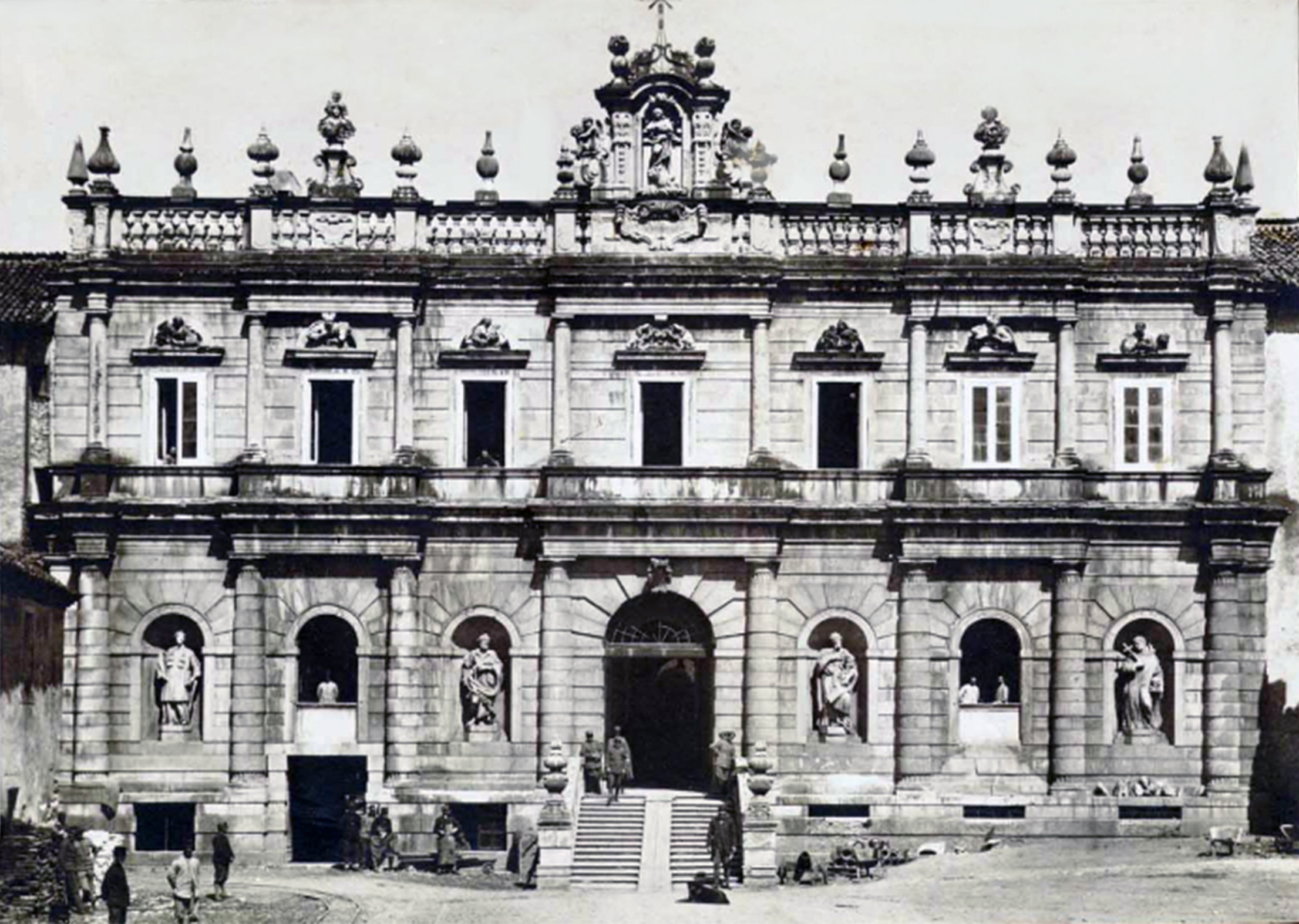 Certosa di Padula with soldiers, during World War I 1915/18